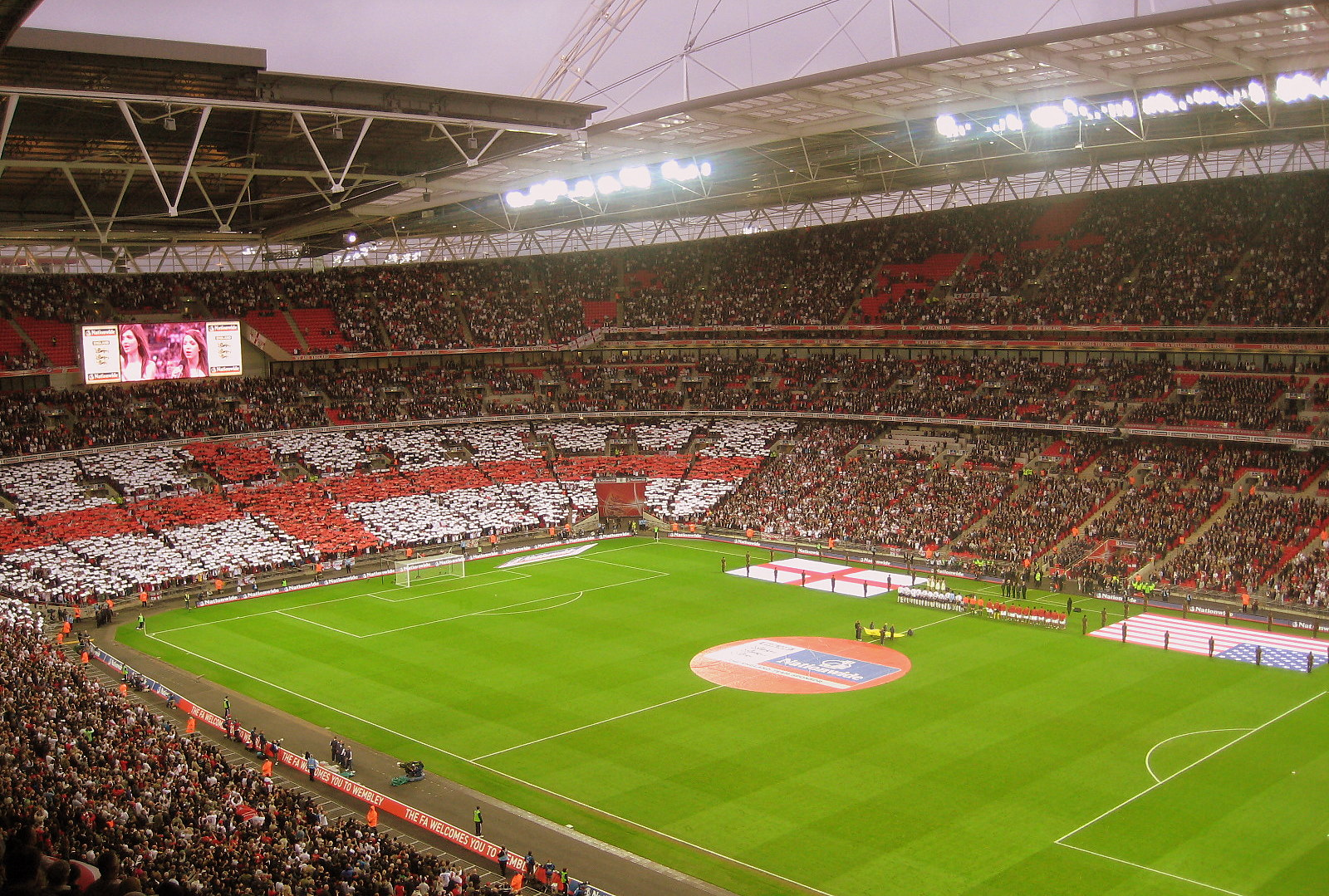 @ Wembley. Woeful display all around. Even the audio on Kelley Rowland's singing of the US national anthem was wonky.